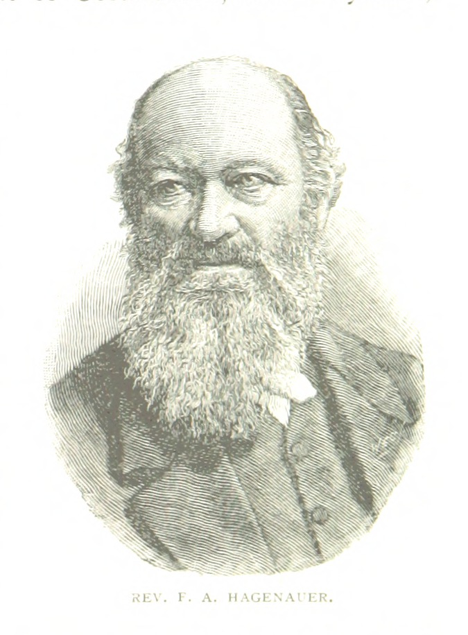 Australian missionary Friedrich Hagenauer